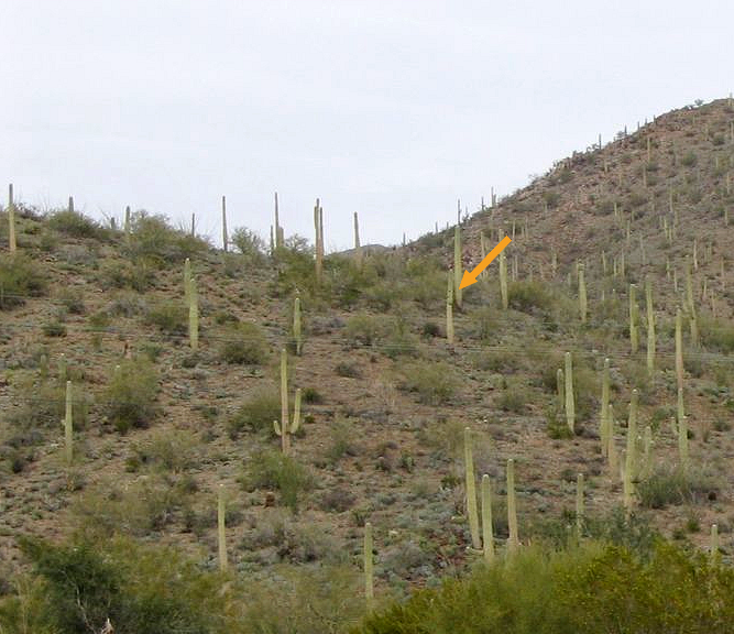 Habitat in a Saguaro-Wood near Tucson